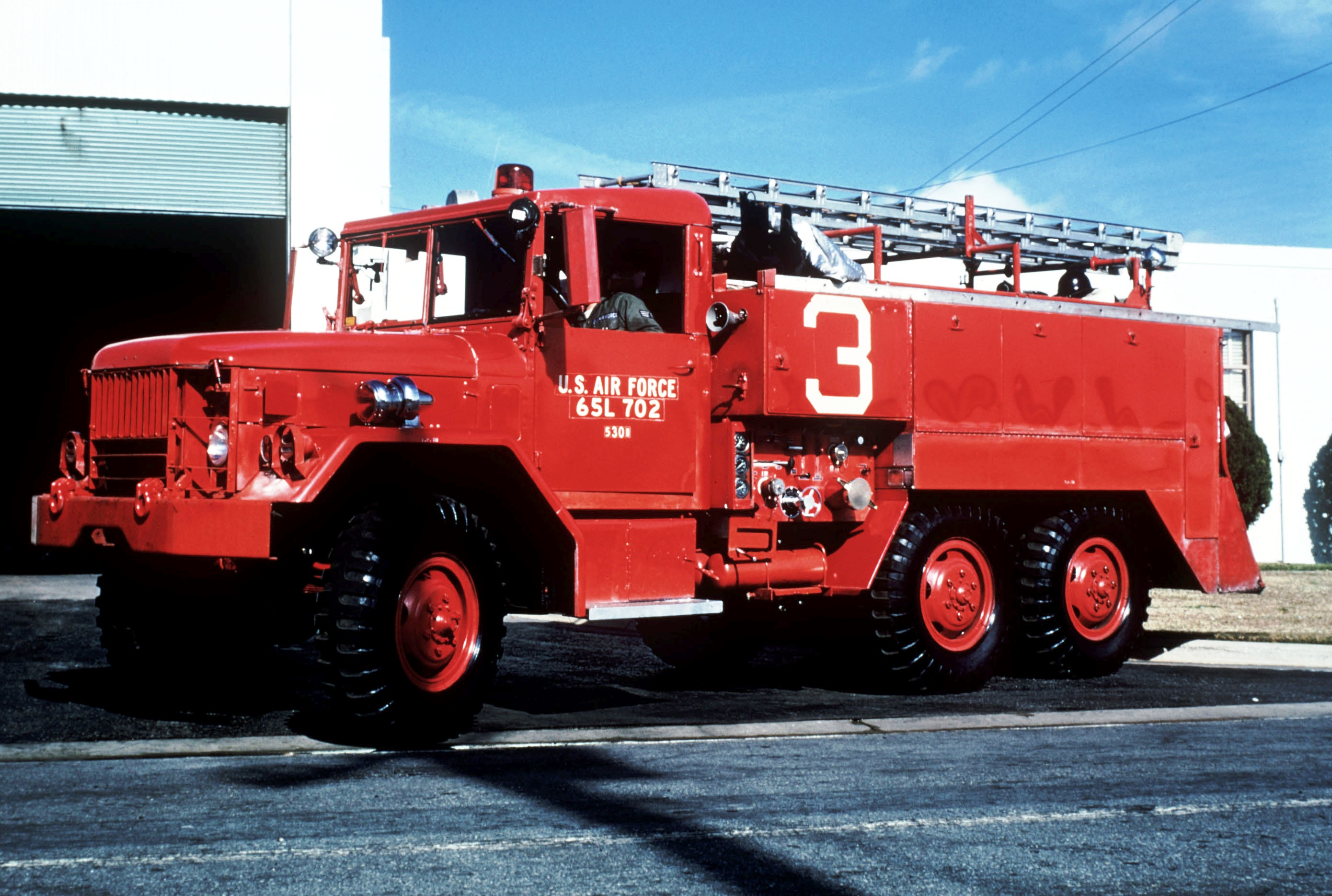 A left side view of an Air Force 530B structural pumper firefighting vehicle based on a M45 "deuce-and-a-half" truck.